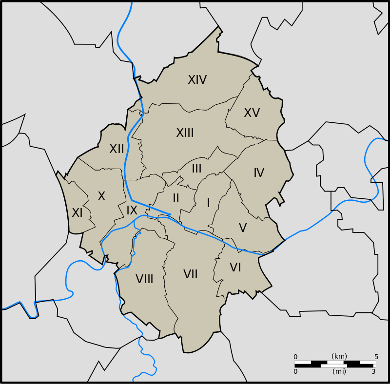 Map of districts of Charleroi, Hainaut, Belgium.